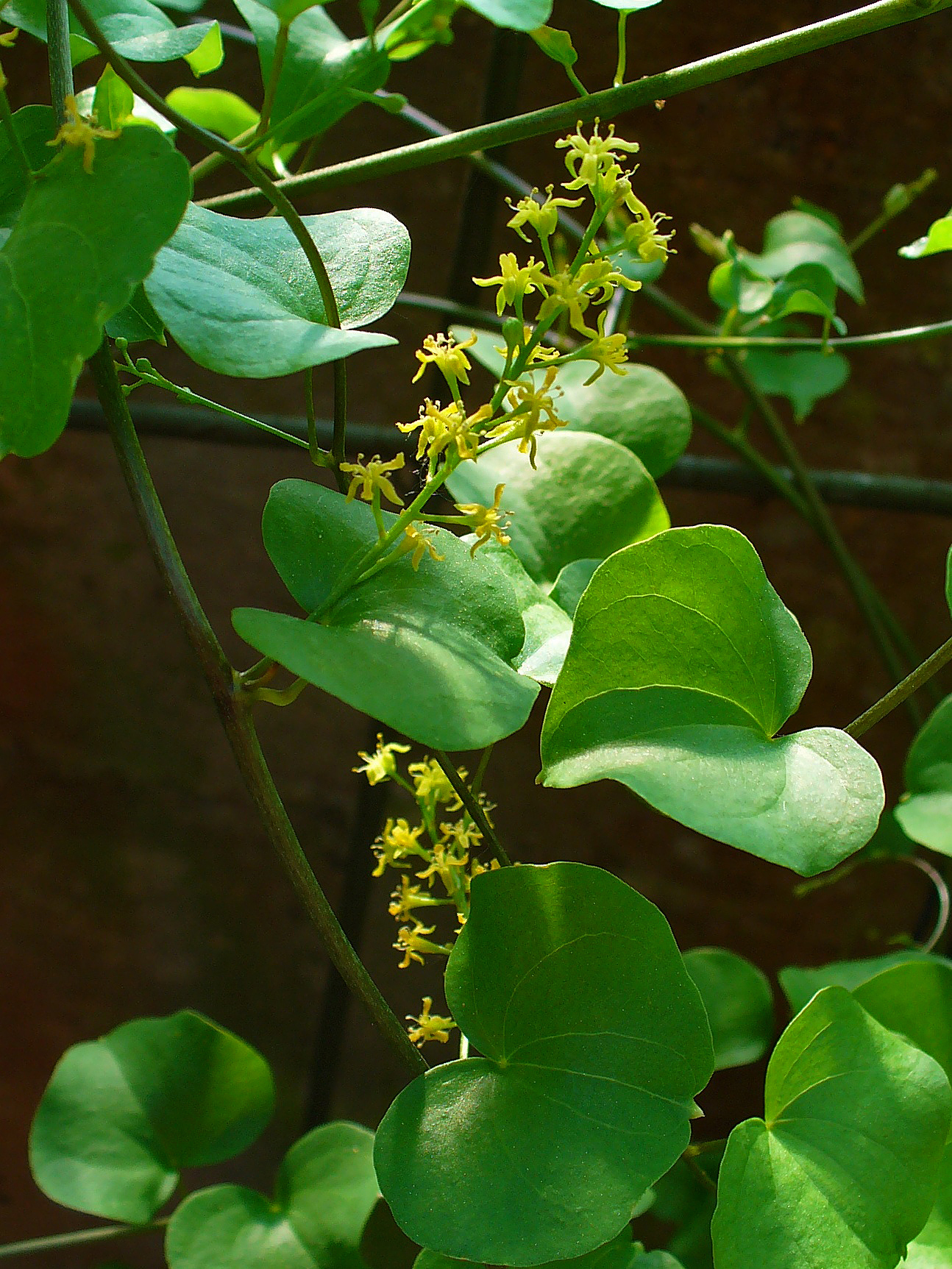 Dioscorea elephantipes, Dioscoreaceae, Elephant's Foot, Hottentot bread, inflorescences; Botanical Garden KIT, Karlsruhe, Germany. The plant is used in homeopathy as remedy: Dioscorea elephantipes (Dios-e.)